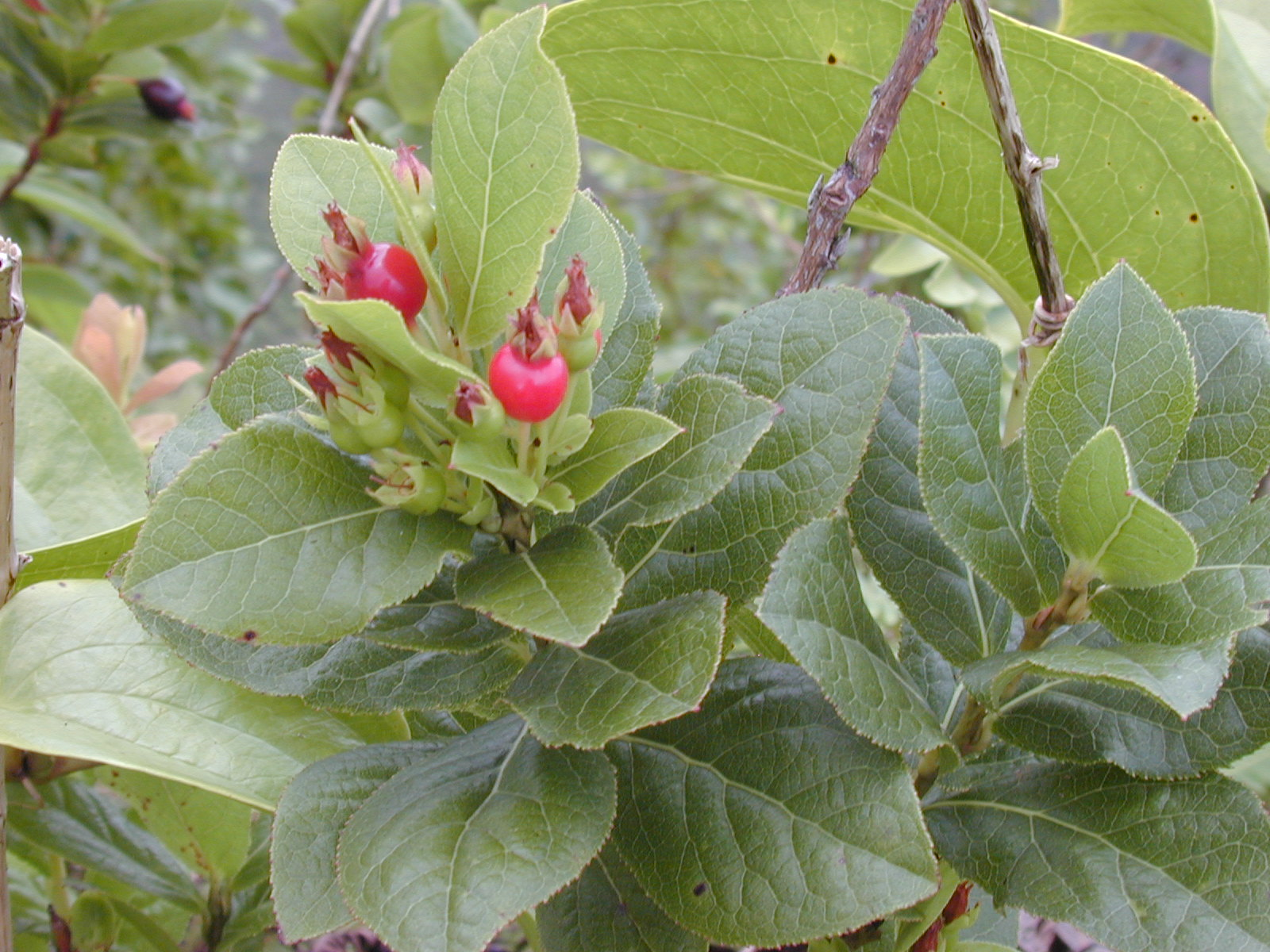 Vaccinium calycinum (fruit leaves). Location: Maui, Waihee Ridge Trail